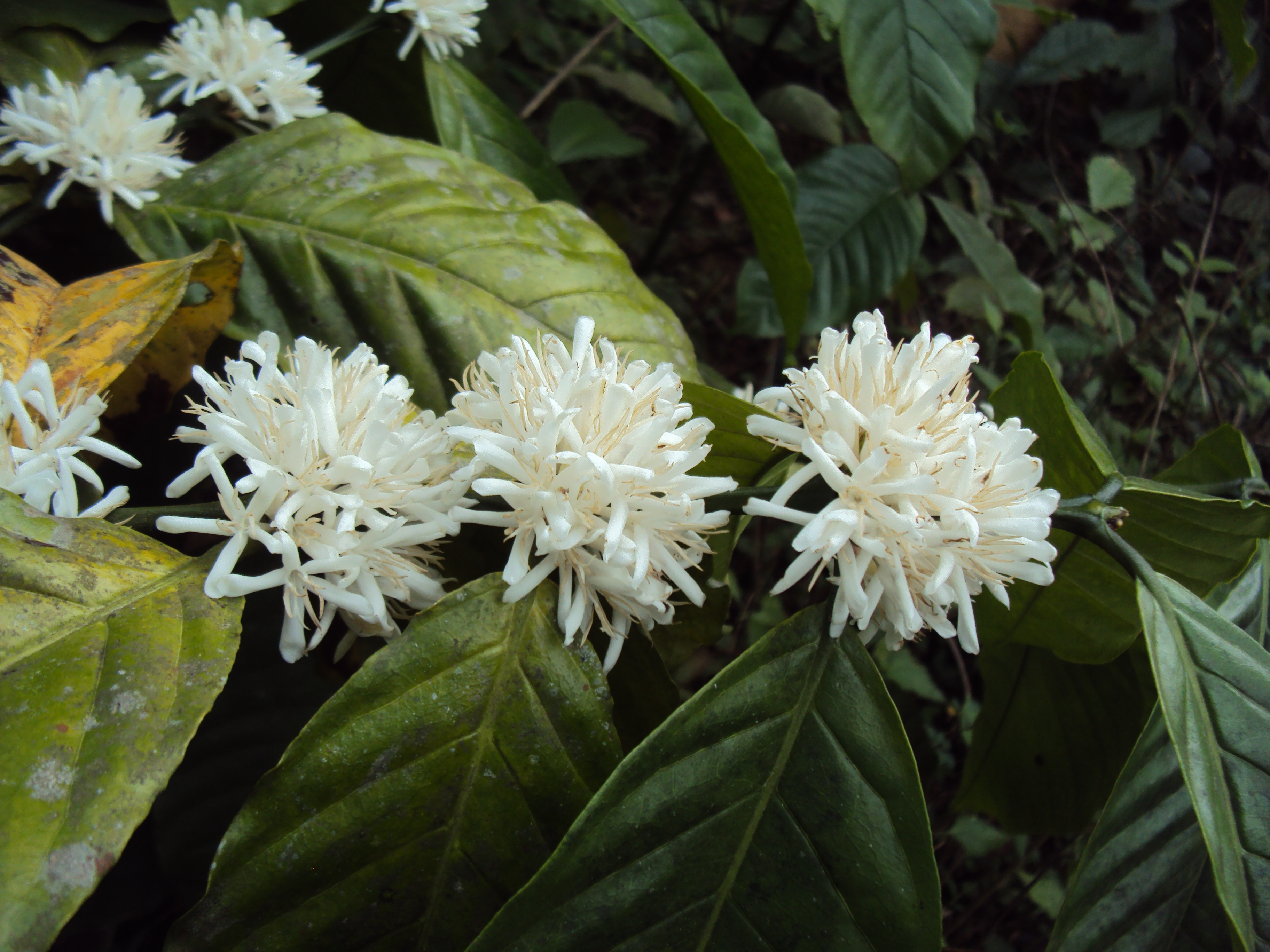 Coffea canephora